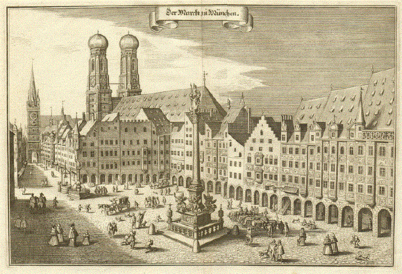 Engraving by Matthäus Merian shows the Marketplace of Munich